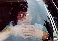 Krzysztof Riege